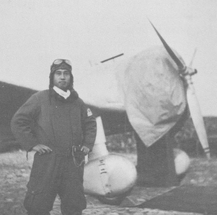 Imperial Japanese Navy fighter ace and future chief of the Japan Maritime Self Defense Force Takahide Aioi. He was officially credited with 10 victories in the Sino-Japan and Pacific Wars. Photo taken at Hankow, China in 1938 when Aioi was with the 12th Air Group.